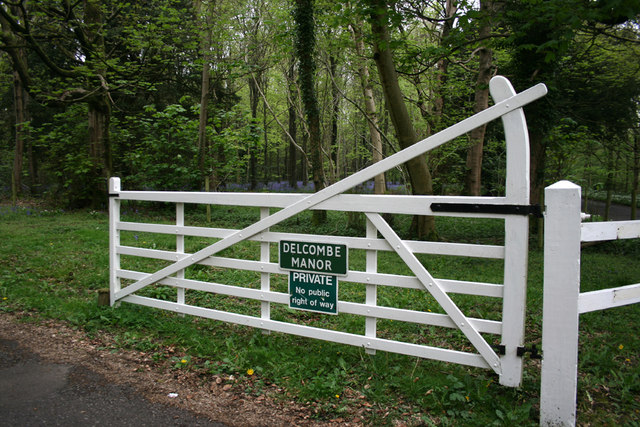 Gateway to Delcombe Manor Entrance to Delcombe Manor on the high Bulbarrow to Milton Abbas road.The road to the manor falls steeply down to Delcombe Bottom.